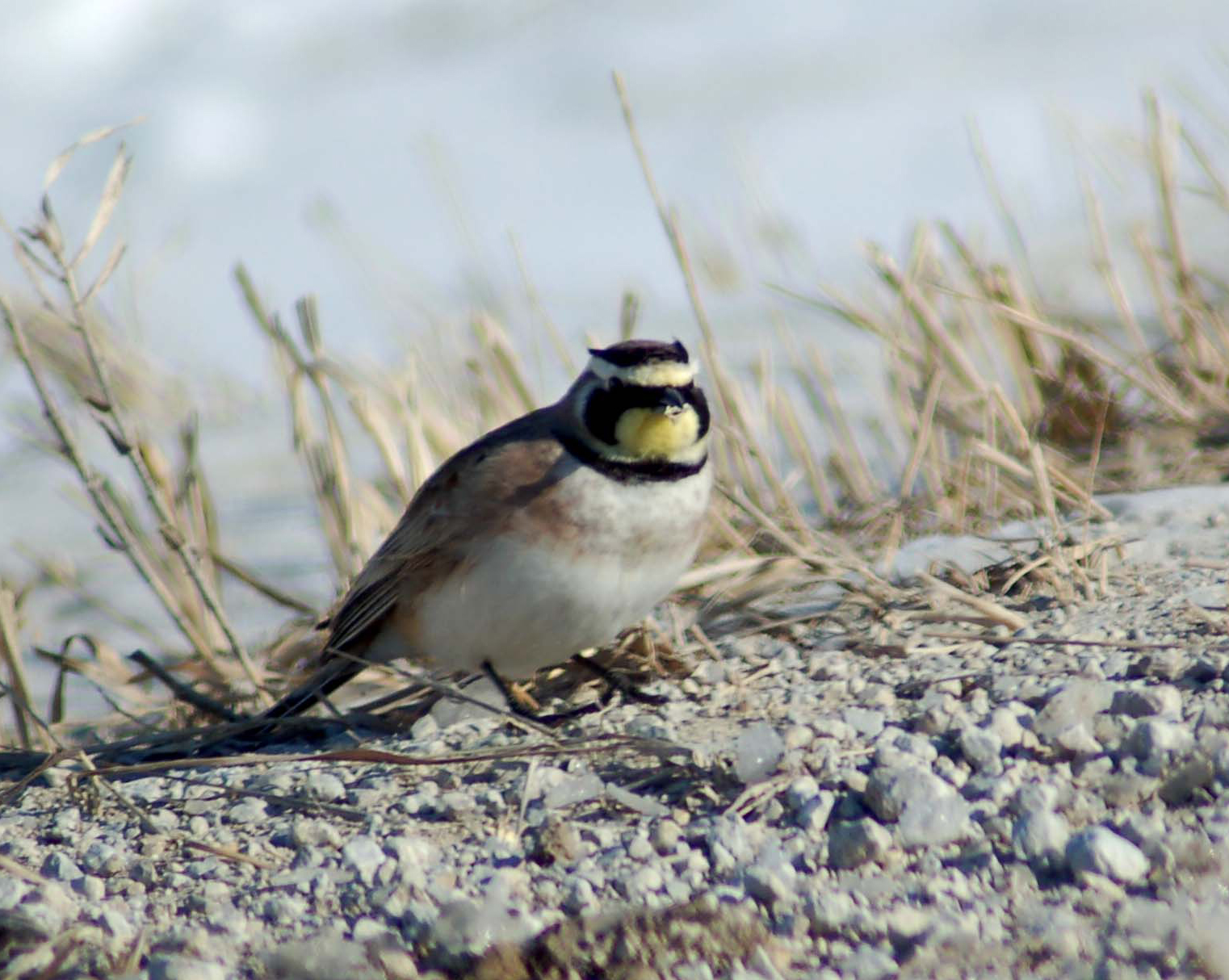 Eremophila alpestris, Minnesota, USA.